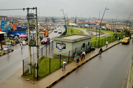 Abule-Egba Park, Lagos-Nigeria